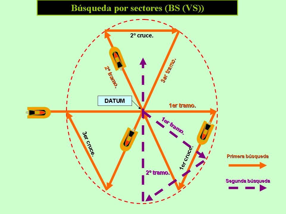 IAMSAR Manual - Sector Search (VS)